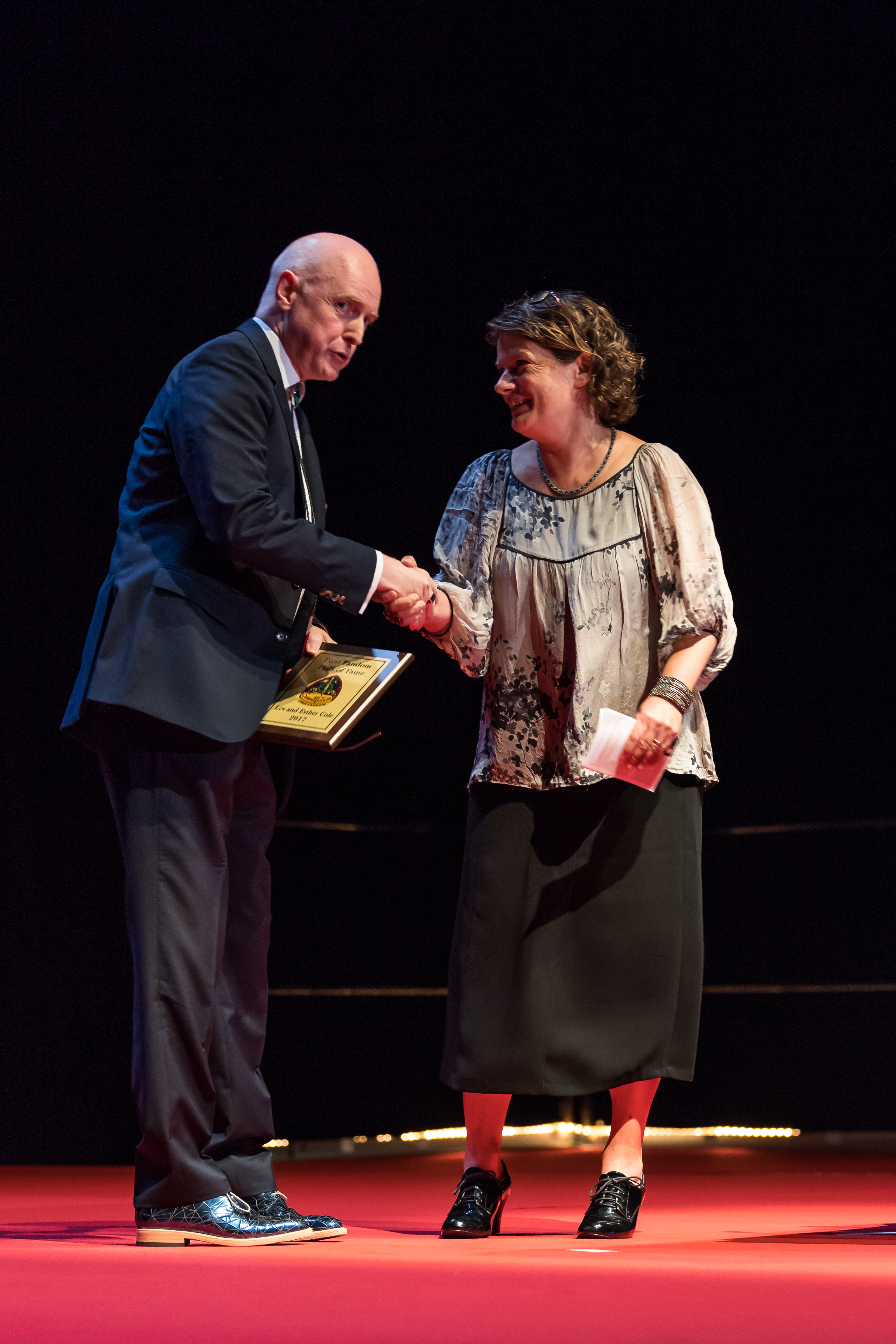 Vincent Docherty; Tove Marling accepting First Fandom Award for Les & Esther Cole. Hugo Award Ceremony, 2017, Helsinki.